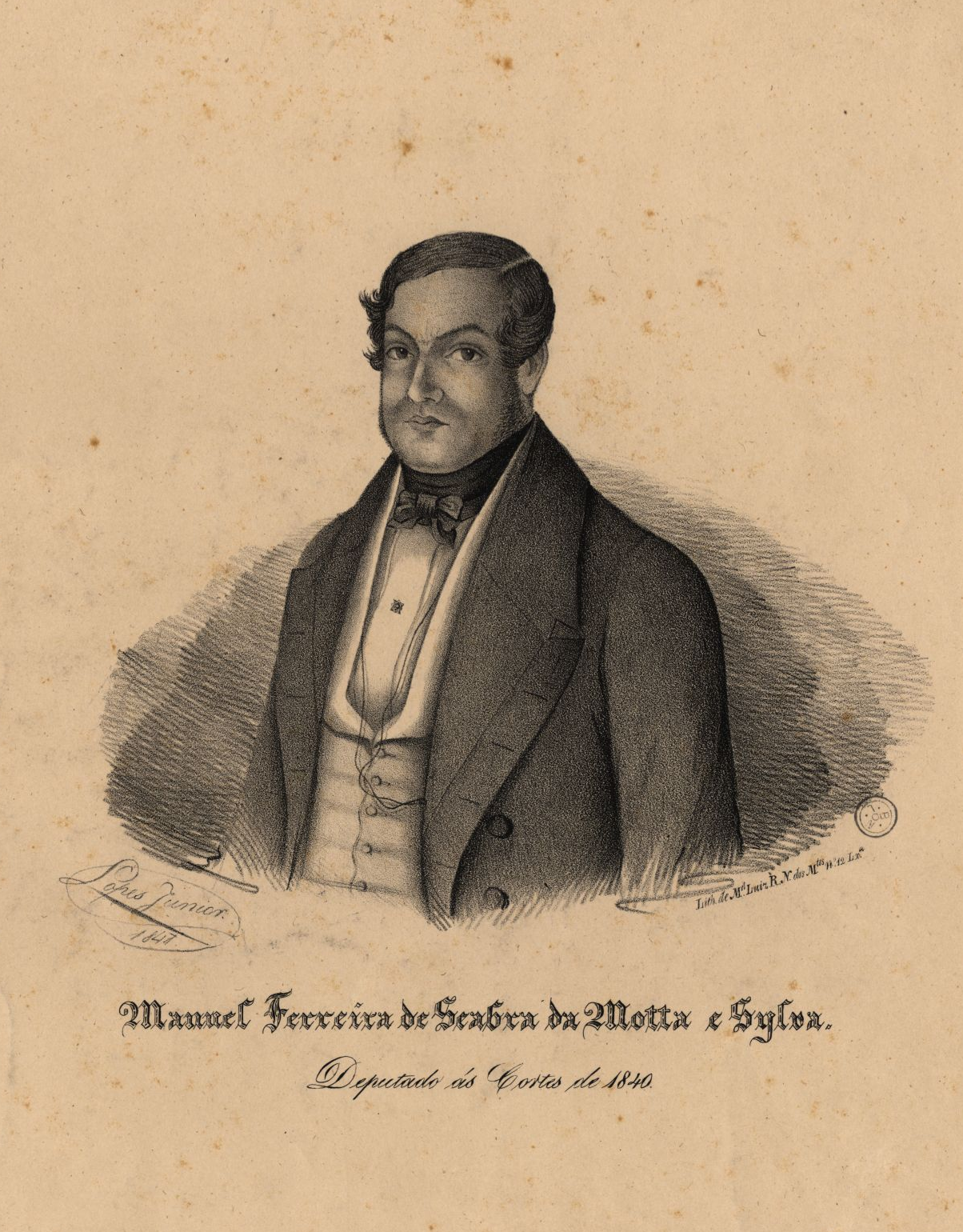 Portrait lithograph, dated 1847, of Manuel Ferreira de Seabra da Mota e Silva (1786-1872), later 1st Baron of Mogofores. National Library of Portugal.